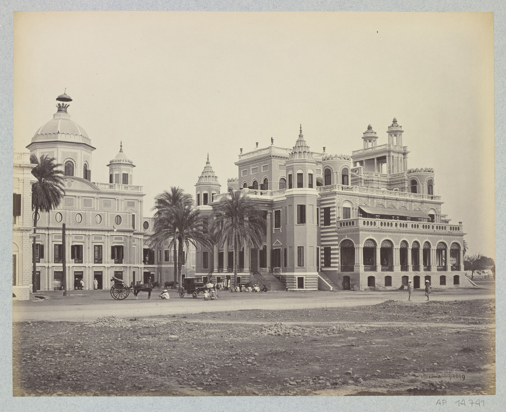 Darshan Bilas and Chota Chattar Manzil, Lucknow